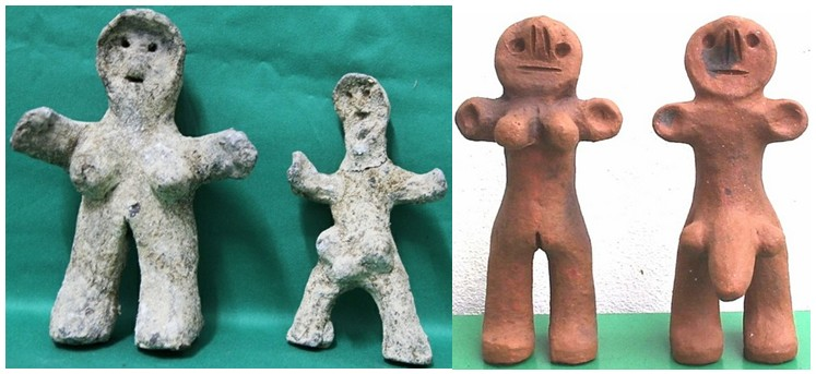 Traditional clay figurines in El Mojon (Teguise), island of Lanzarote (Canary Islands). Supposed ancestral origin, today they have become a tourist Toy as you can see in this photographic diptych.